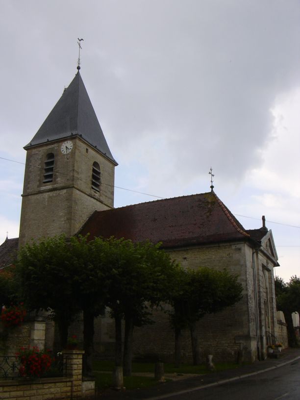 Saint Michel's church in Blaise (Haute-Marne, Champagne-Ardennes, France).